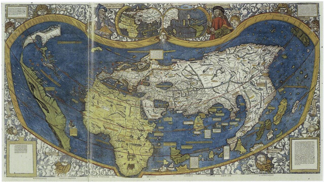 a colored version of the map of the once known world from Martin Waldseemüller, 1507